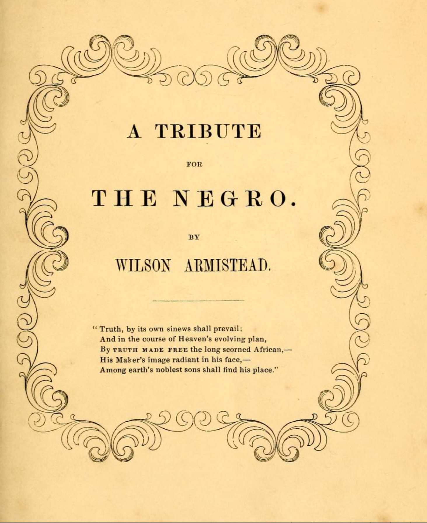 A Tribute for the Negro is British anti-slavery abolitionist Wilson Armistead's best known work. Published in 1848 it describes slavery as "the most extensive and extraordinary system of crime the world ever witnessed".